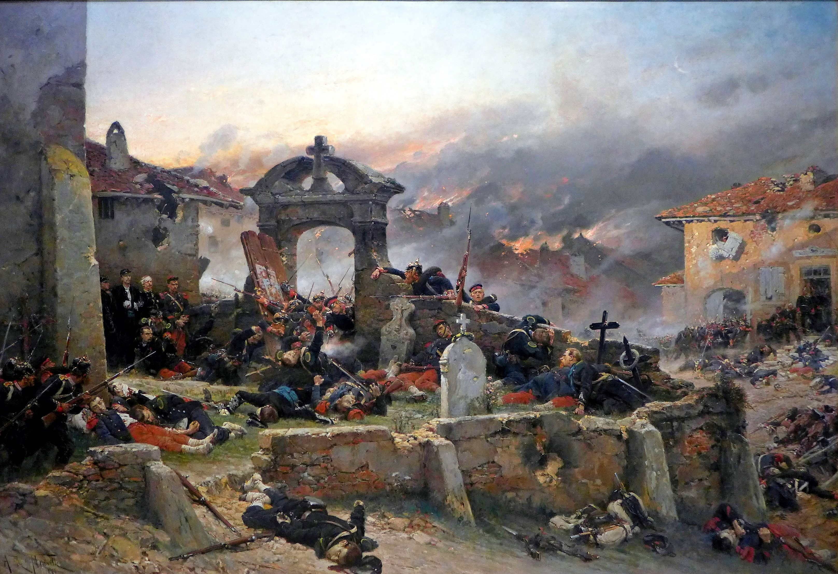 The cemetery of Saint-Privat near Metz became a bloody battlefield [Battle of Gravelotte] on which 42,000 soldiers died. On 18 August 1870, the French troops, recognizable by their red trousers, fought there in the last moves against the Prussian army. The light, which penetrates through the battle smoke in the upper part of the picture, emphasizes the drama of the fight. Neuville points out that even defeat can be honorable. With the image he defends the republican patriotism and strengthens the French resolve. The painting, which was first exhibited at the Paris Salon in 1881, earned the artist the title of officer of the Legion of Honor.